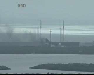 SLC-40 after Falcon 9 fire happened on 1st September 2015